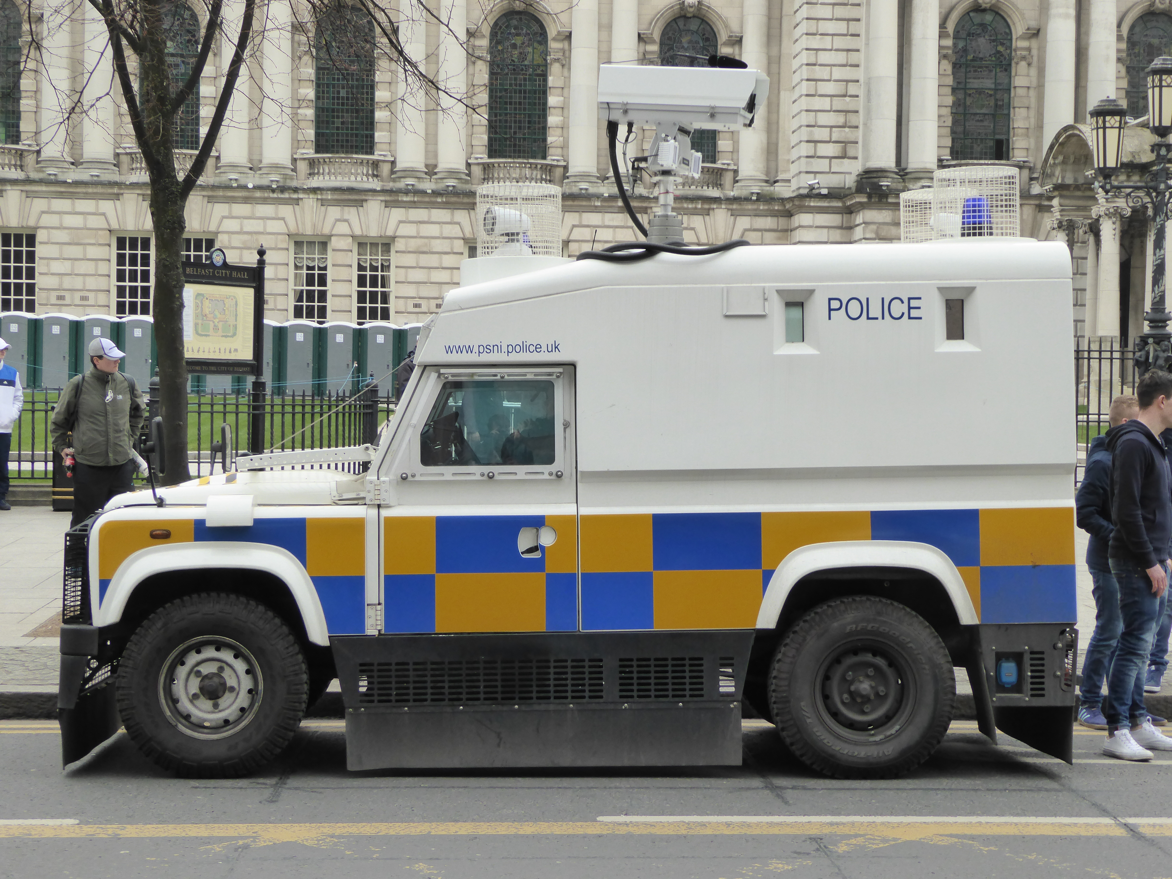 PSNI vehicle (note camera on top), Belfast, Northern Ireland, March 2015